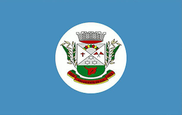 Flag of the city of São Vicente do Sul, Rio Grande do Sul, Brazil.